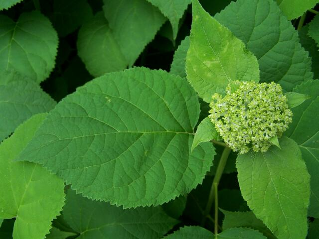 Hydrangea arborescens Wild Hydrangea, variation "Annabelle". Photographed at The Morton Arboretum, Lisle, Illinois, USA.